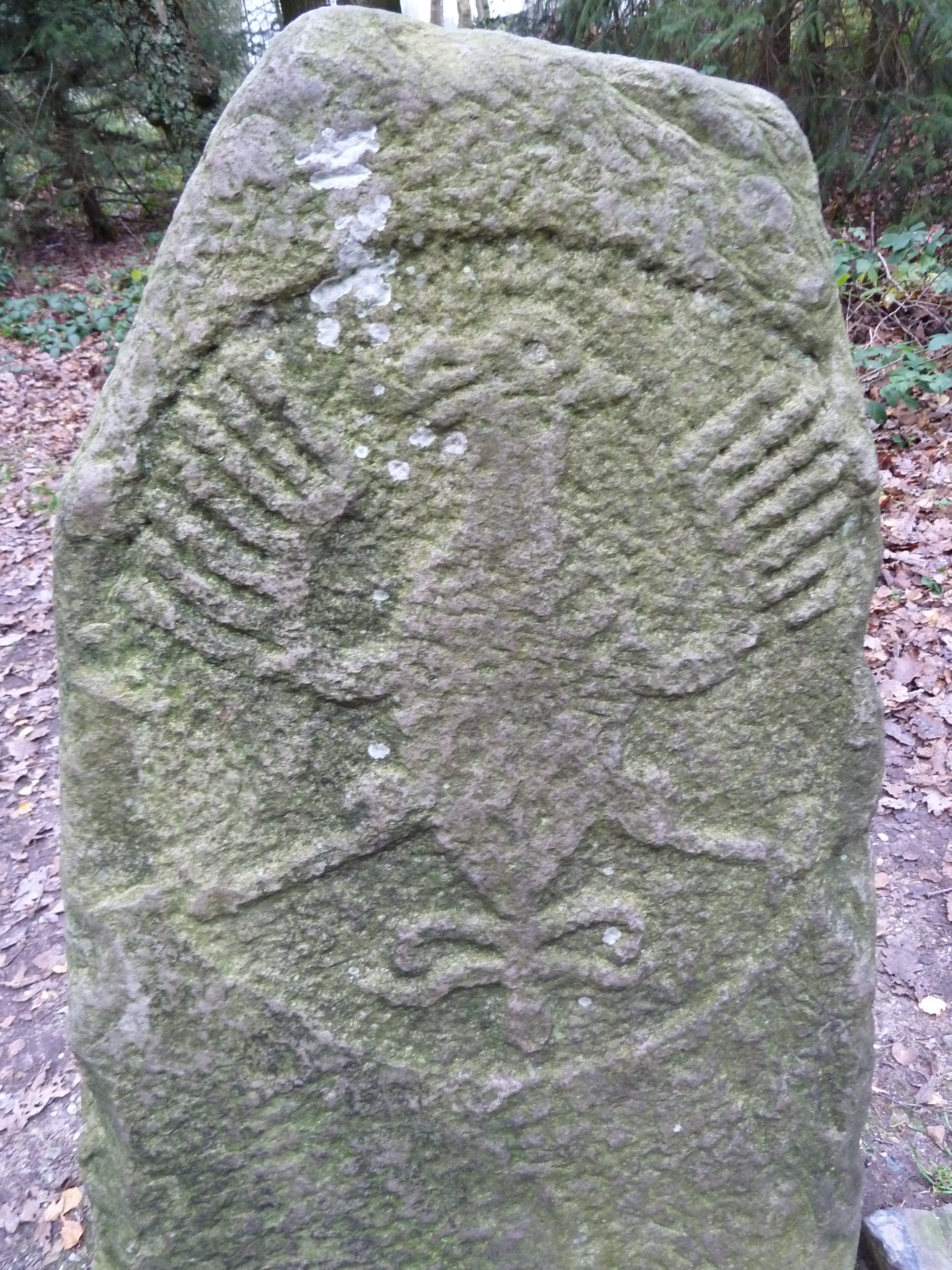 Border stone behind Wilhelminatoren, Vaals, Limburg, the Netherlands